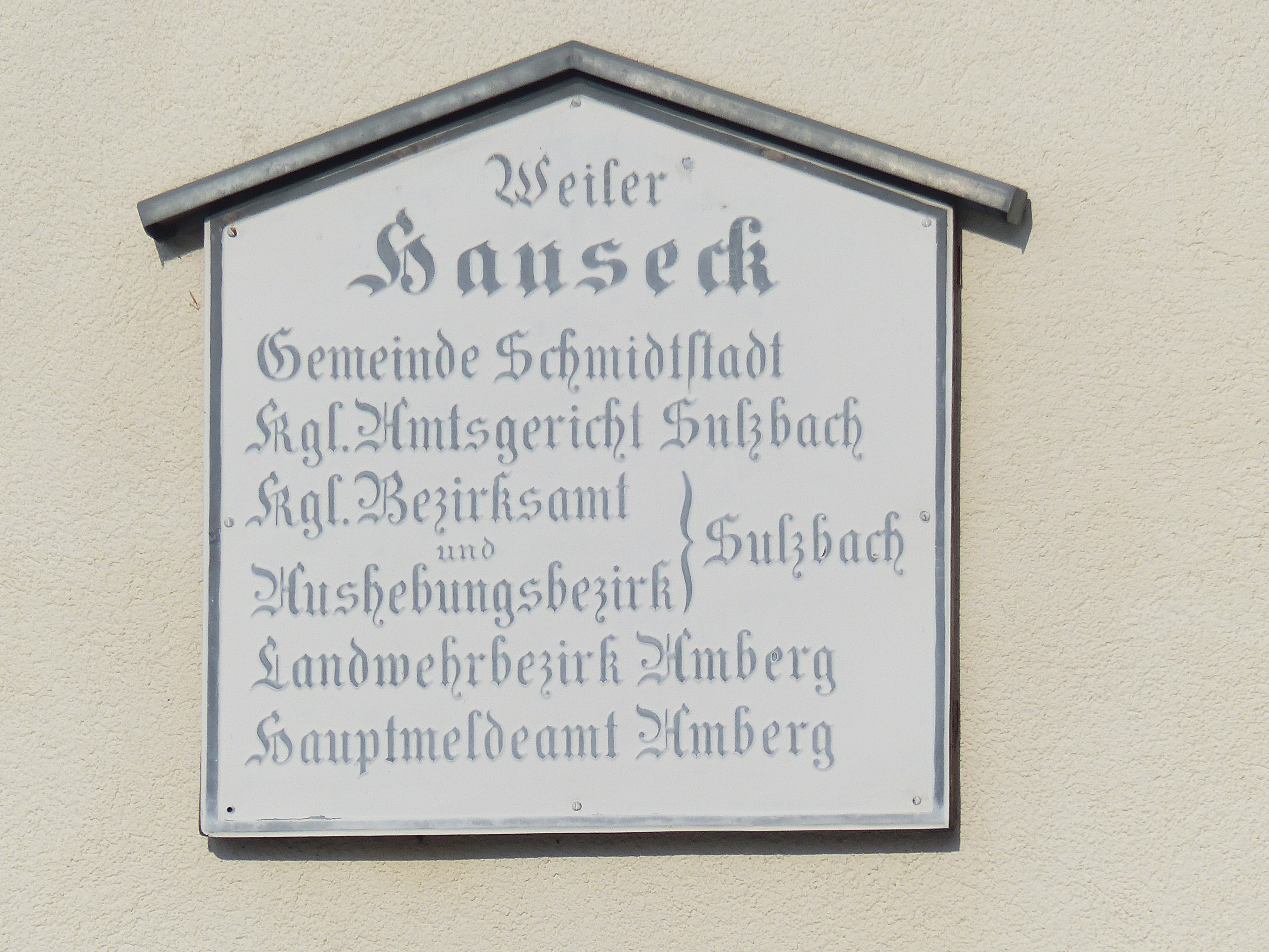 The historical place-name sign of the hamlet Hauseck, a part of the municipality of Etzelwang